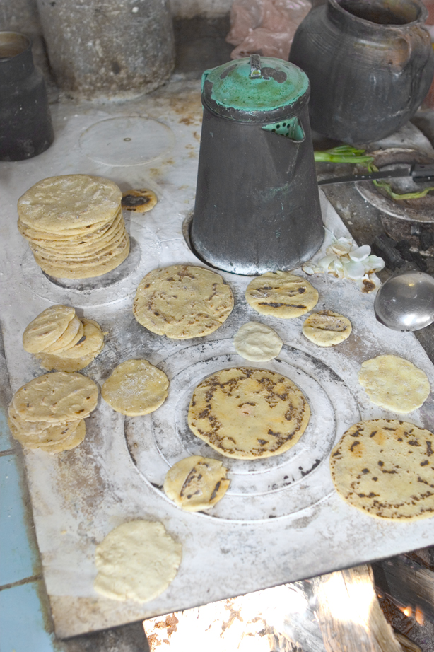 These are hand-patted tortillas cooking on the wood burning stove our friends, the Ajiatazes, a Quiche Mayan family in Momostenango, Totonicapan, Guatemala.